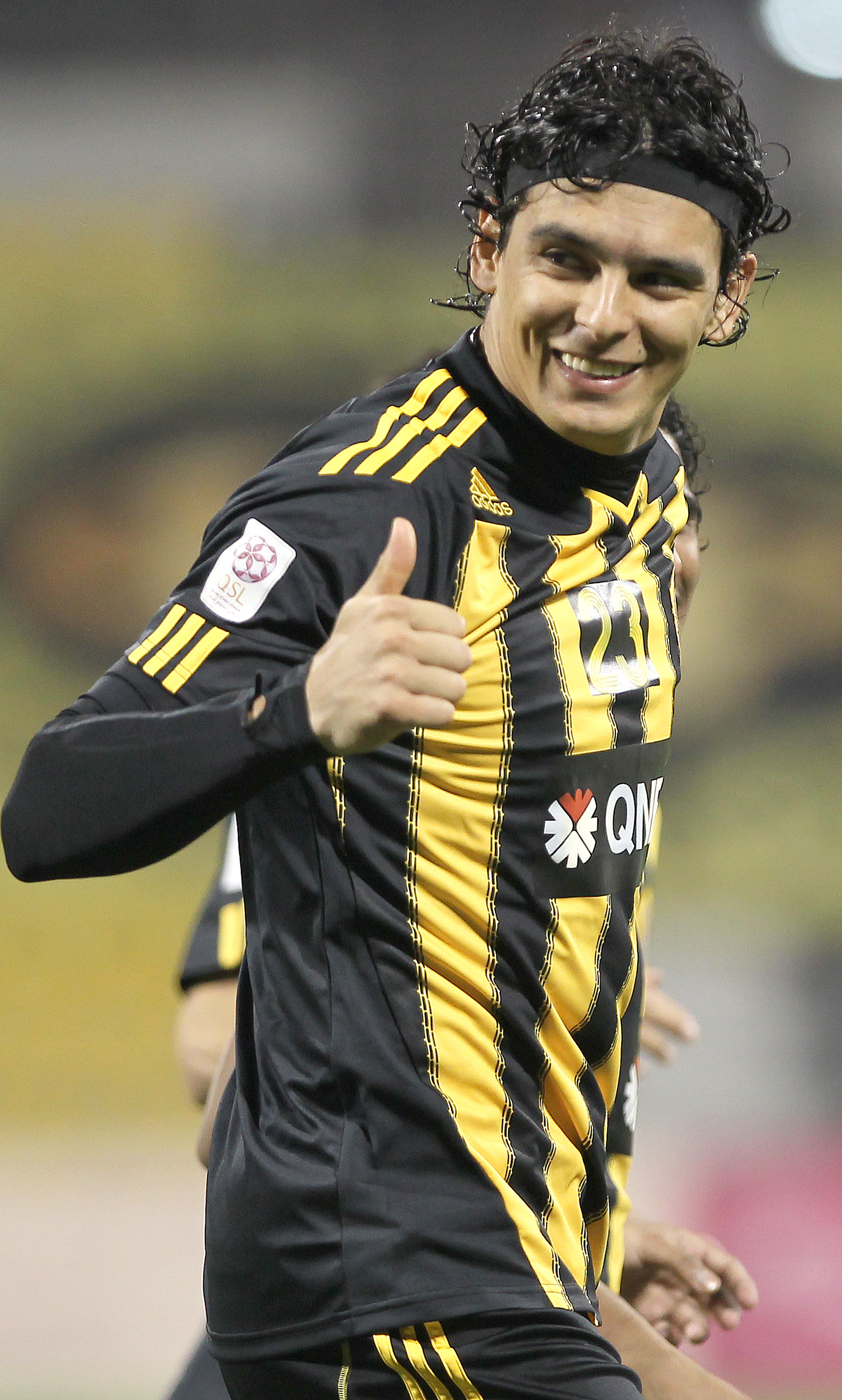 Qatar SC's Sebastian Soria gestures during the Qatar Stars League match. Picture by AK Bijuraj